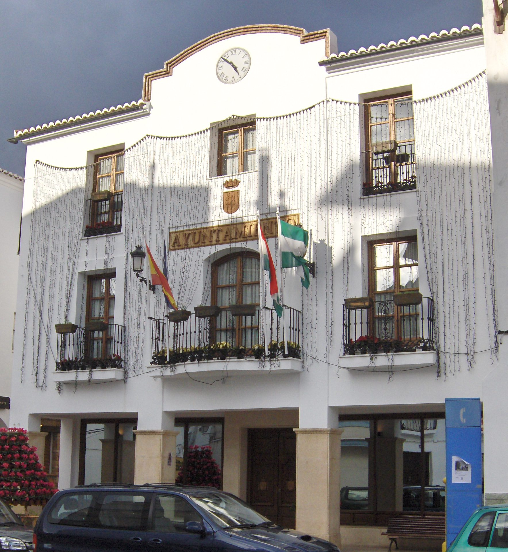 Alozaina Town Hall.